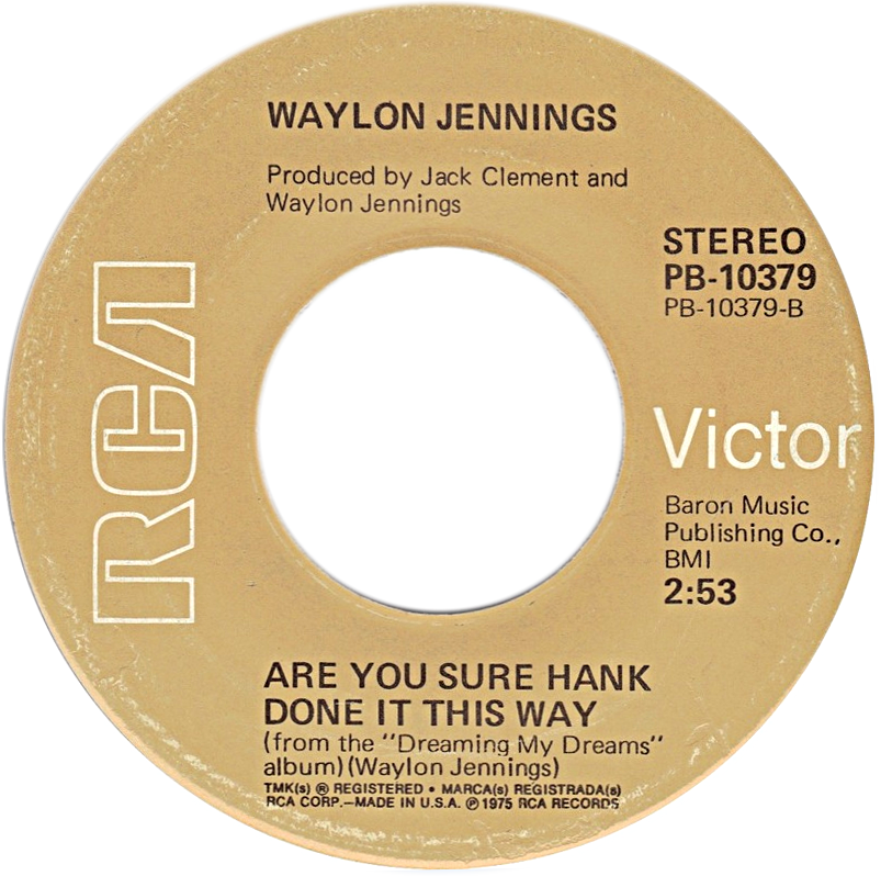 "Are You Sure Hank Done It This Way" by Waylon Jennings US vinyl